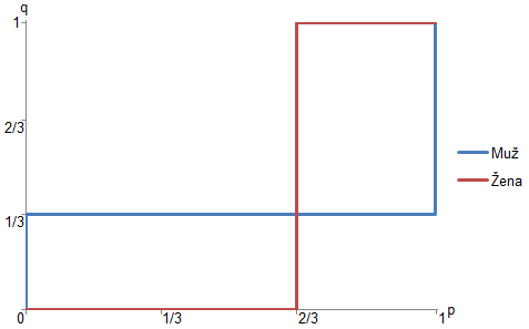 Best response function for 2 players BoS game